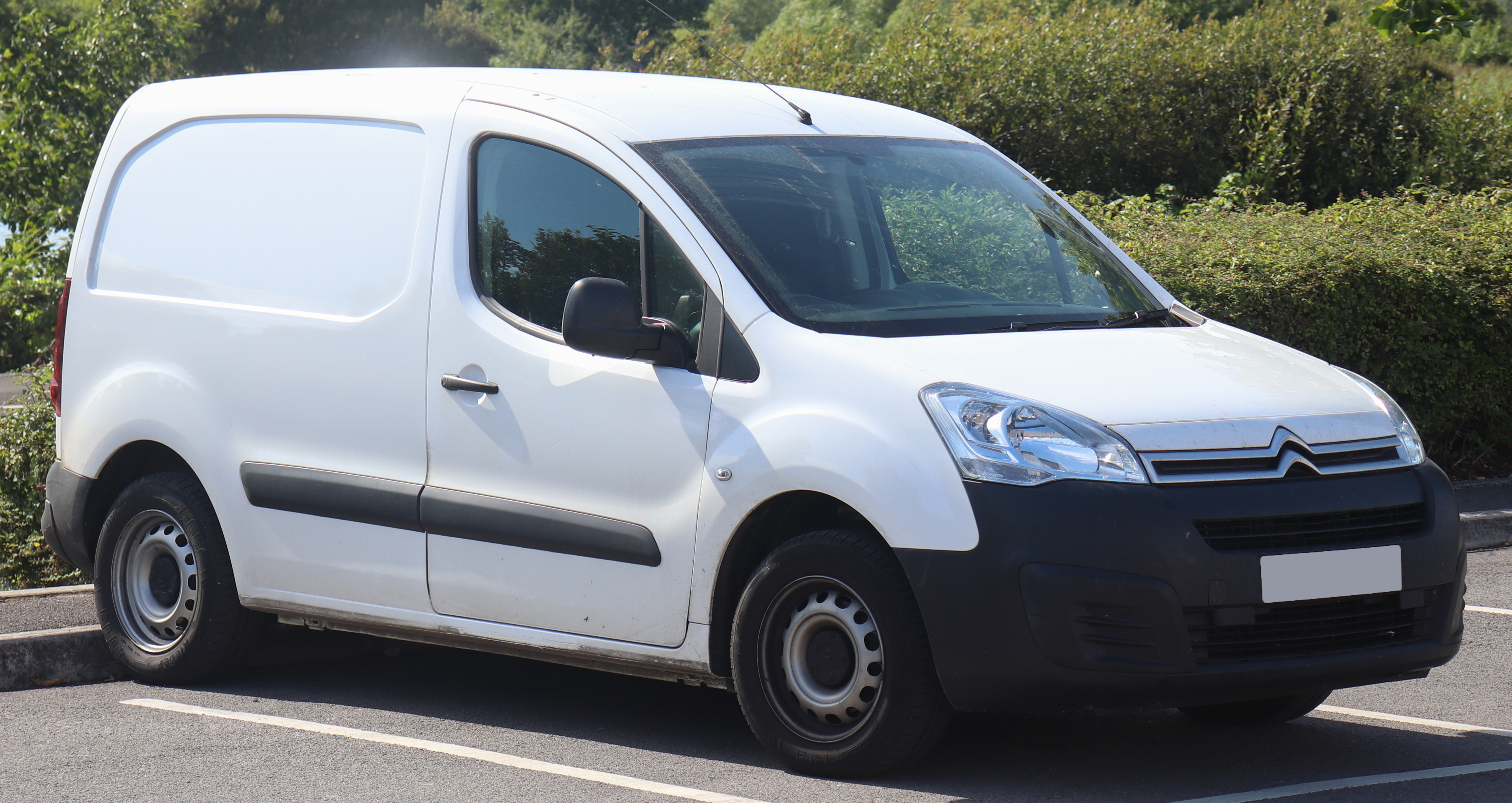 2017 Citroen Berlingo 625 LX BlueHDi 1.6 Taken in Weymouth, Dorset